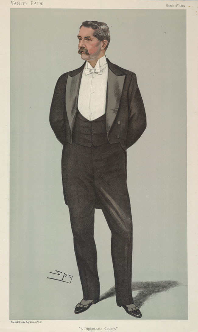 Men of the Day No.741: Caricature of Mr H White. Caption reads: "A Diplomatic Cousin"